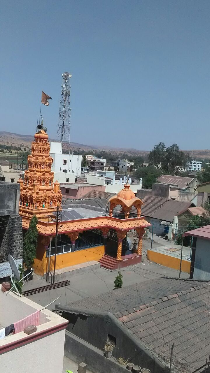 विठ्ठल रूखमिनी मंदिर